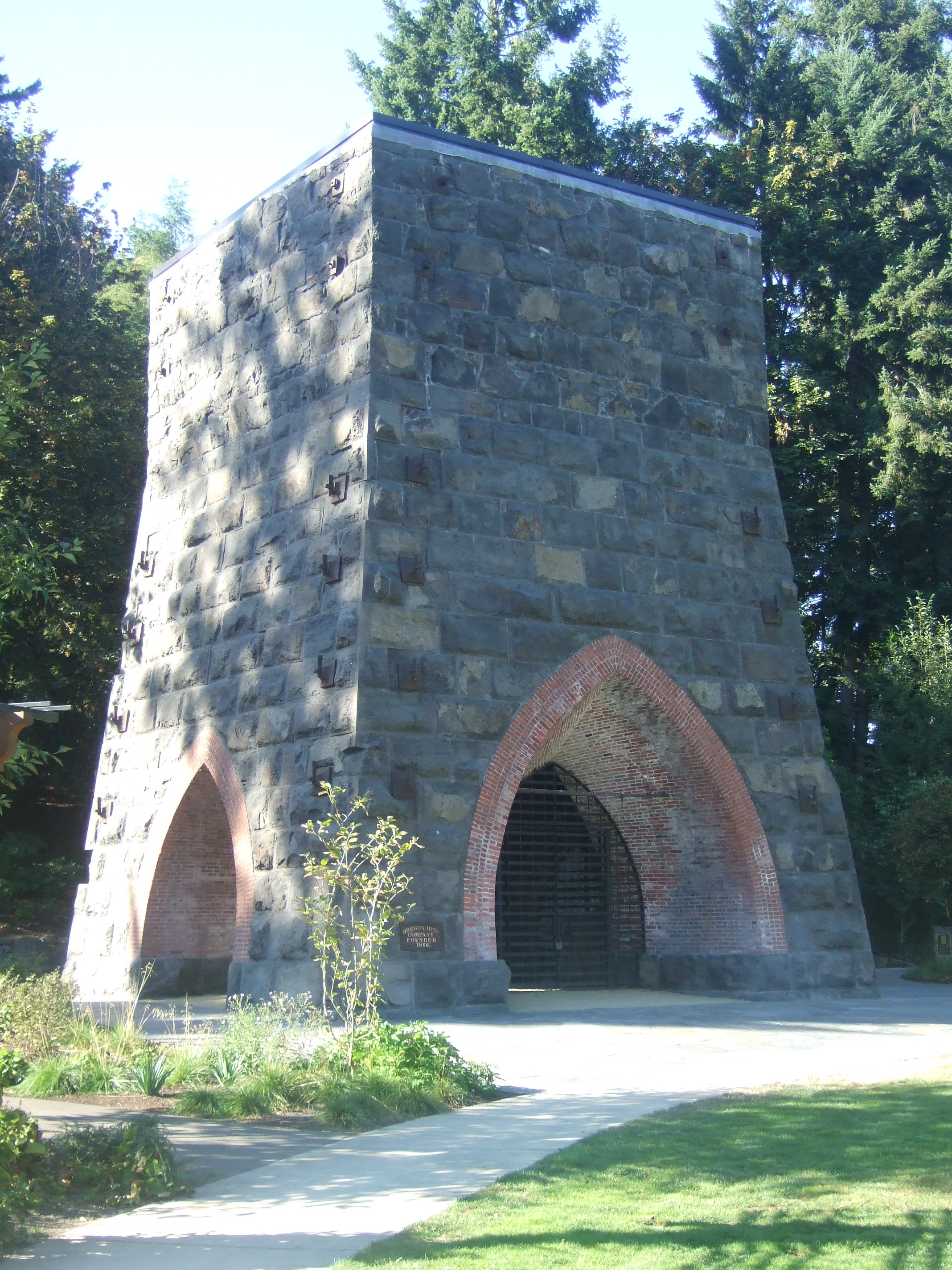 Restored remains of the Oregon Iron Company Furnace, Lake Oswego, Oregon, August 2010. Added to National Register of Historic Places in 1974. (Building #74001674).